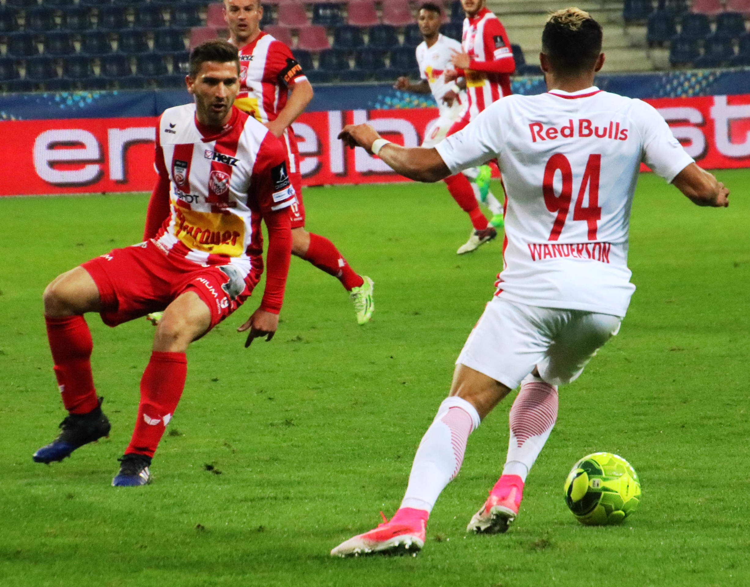 Quarterfinal Austrian Cup